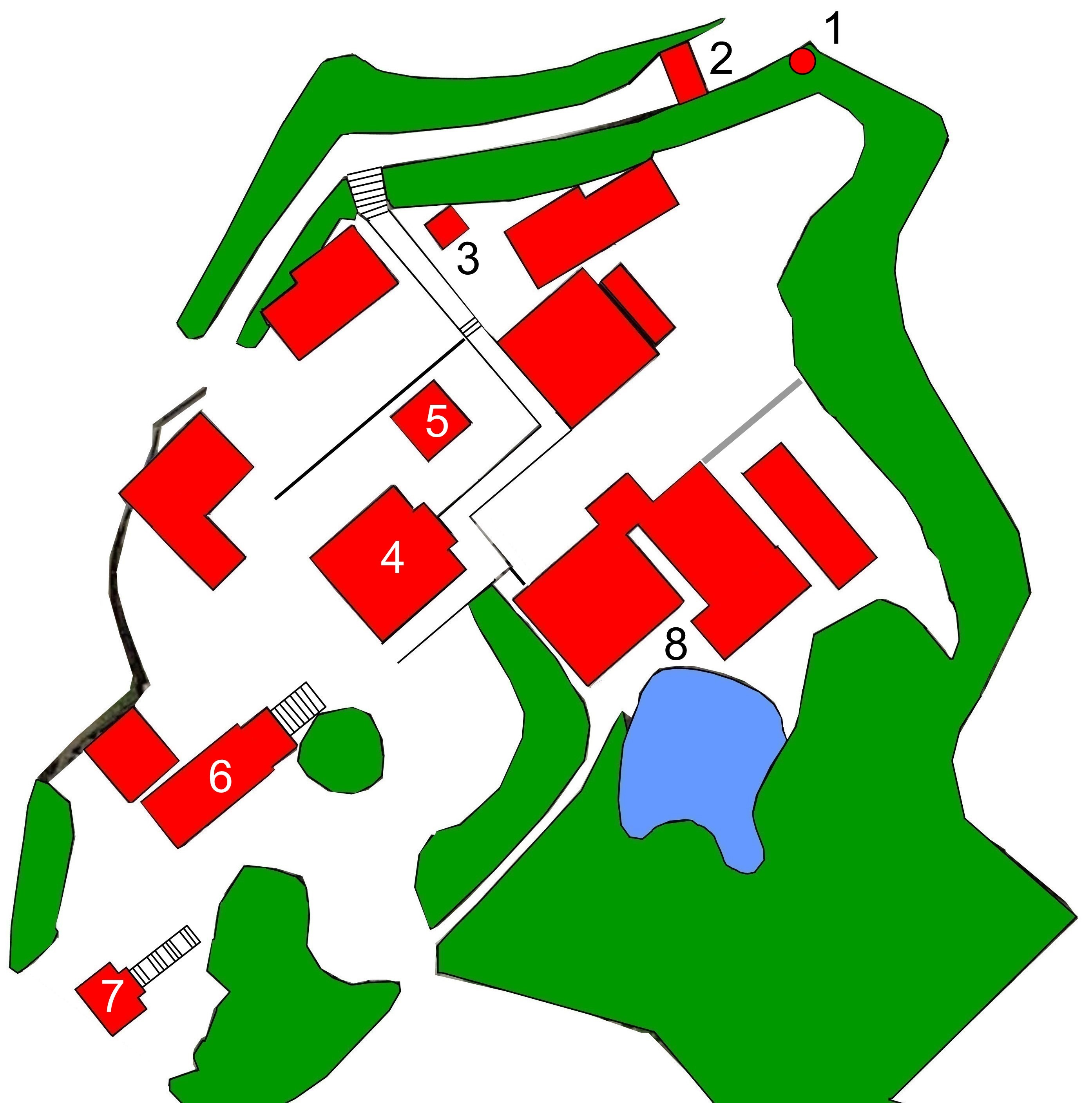 Layout of Gôshô Temple at Japan